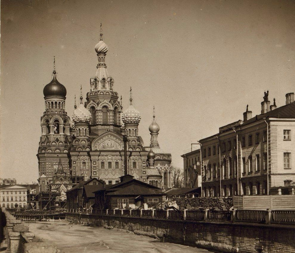 View on Cathedral of the Resurrection of Christ («Church of the Savior on Spilled Blood») from Nevsky Prospekt in St Petersburg (Russia). B/w photography by Sergei Mikhailovich Prokudin-Gorskii between 1905 to 1915